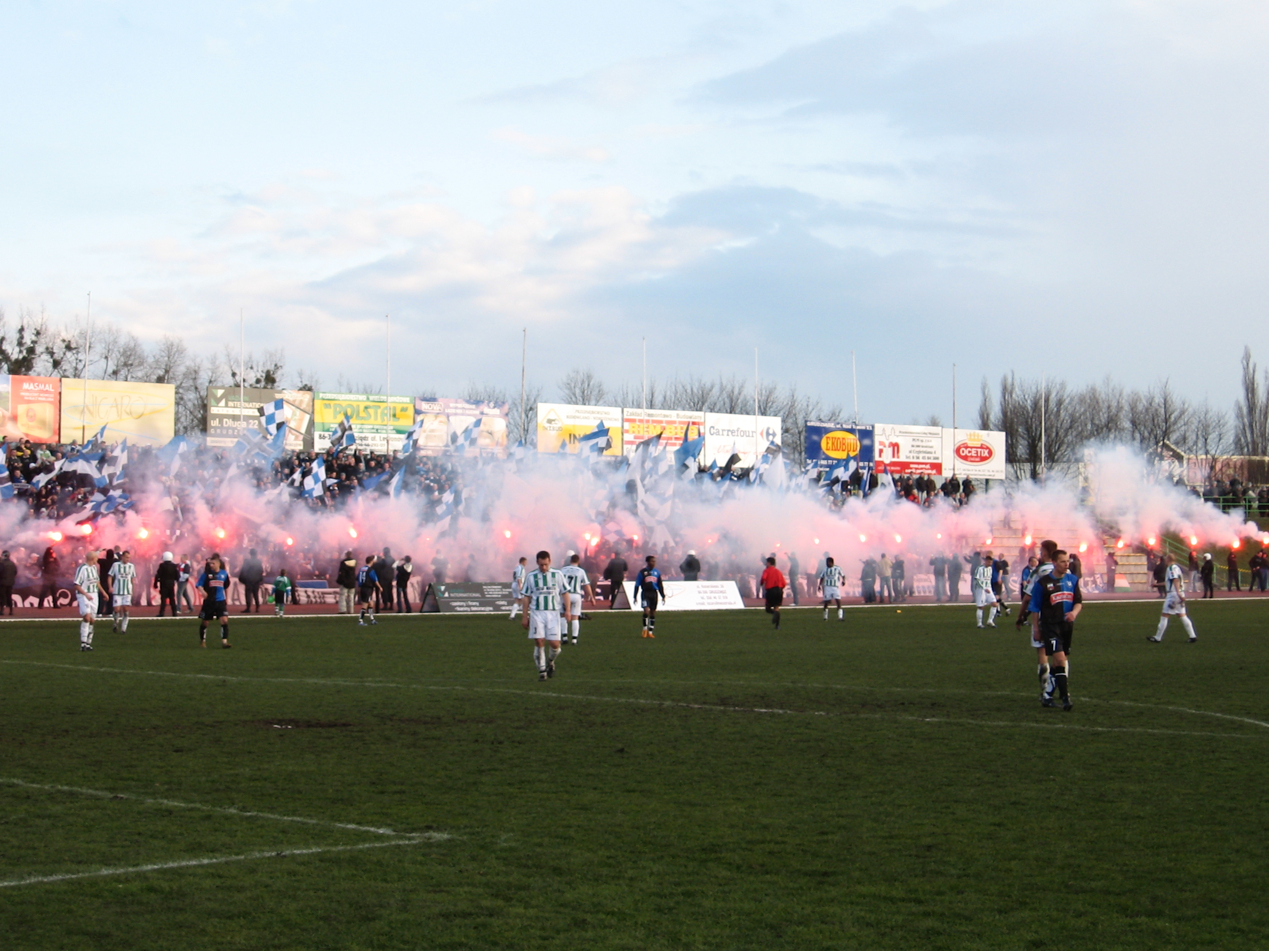 Zawisza Bydgoszcz fans